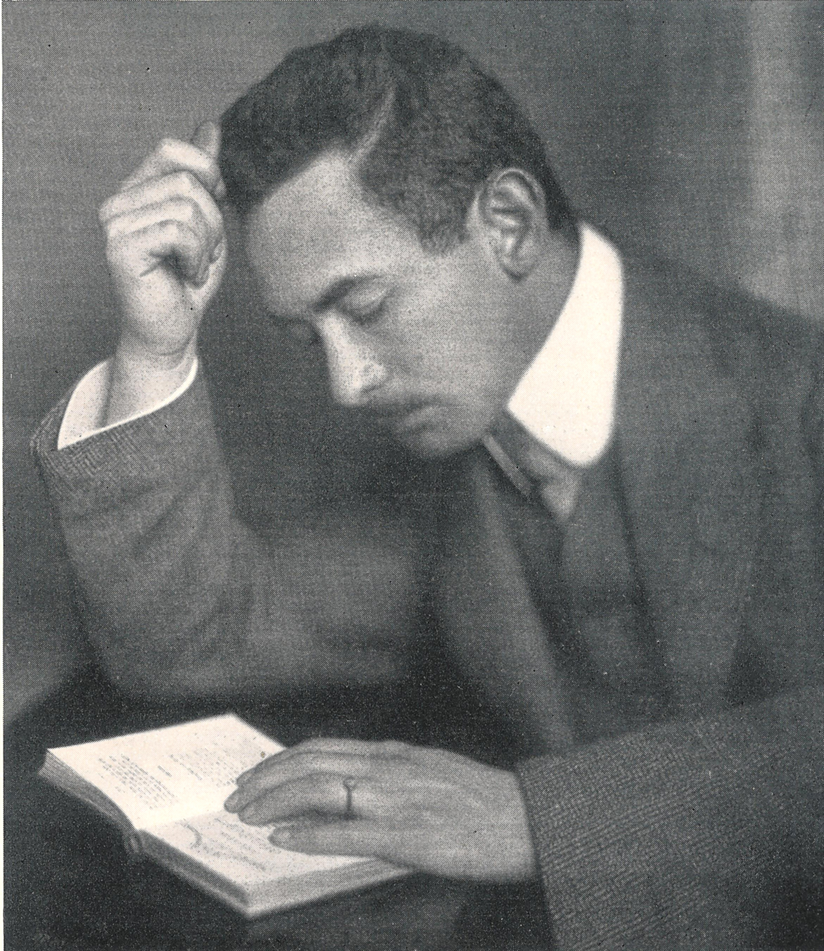 Walther Heymann